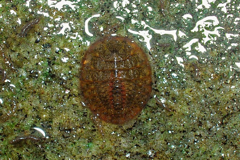 Water penny larva found in a mountain stream under a rock.